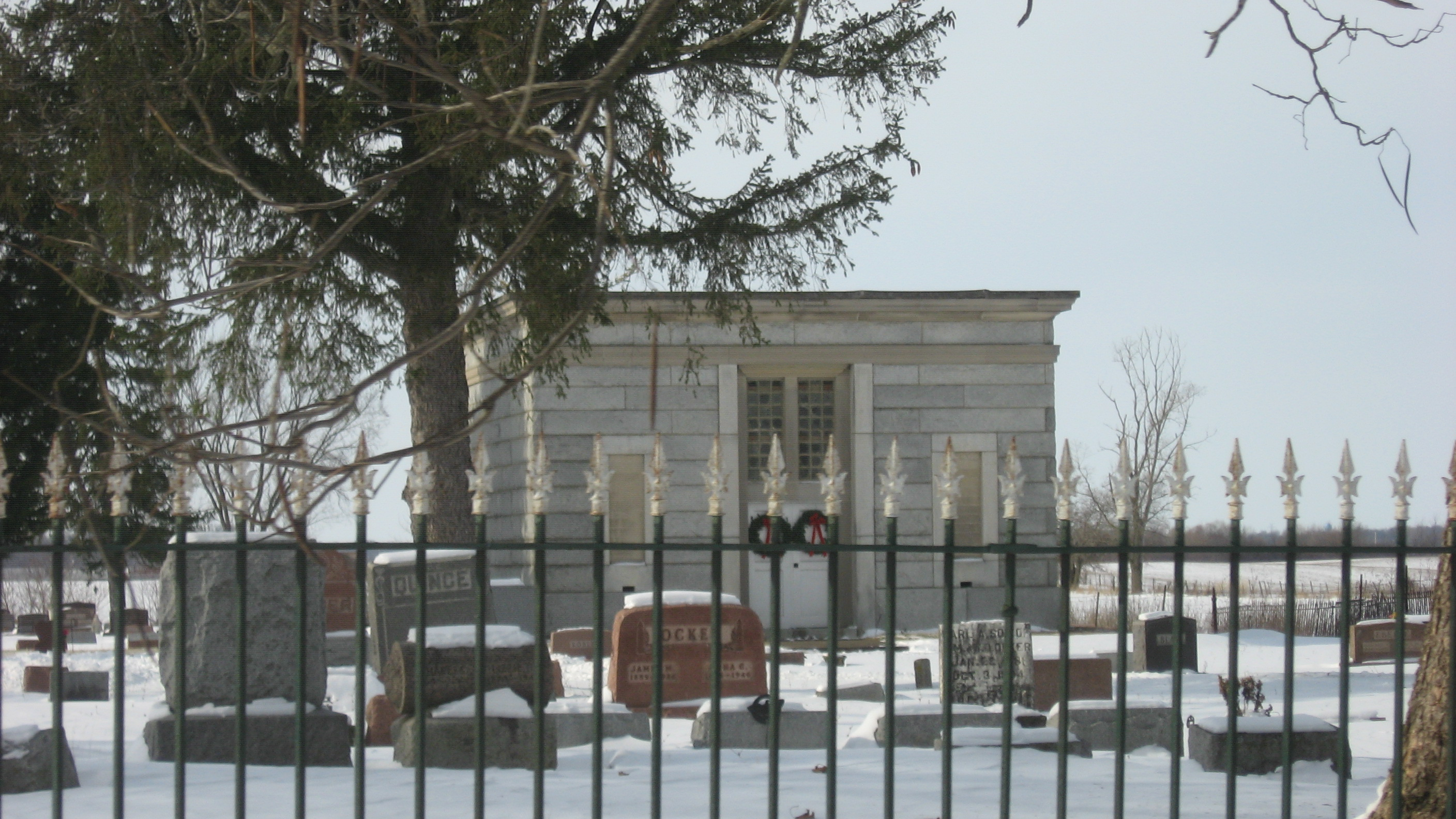 Front of the Garrett Community Mausoleum, located off the western side of S. Hamsher Street in Garrett, Indiana, United States. Built in 1922, it is listed on the National Register of Historic Places.